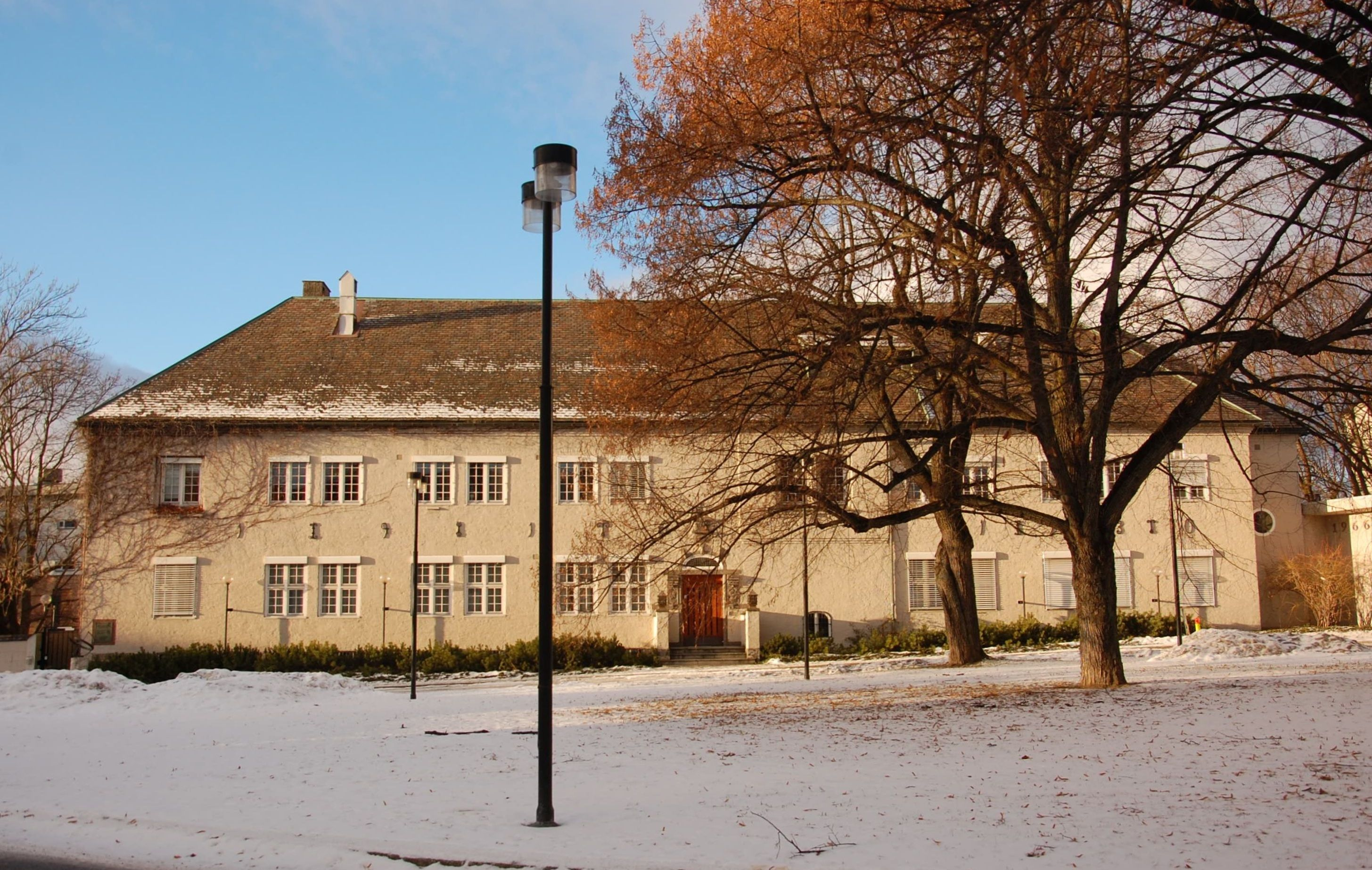 Lilleborg fabrikker, old officebuilding in Sandakerveien 54-56 in Oslo, from 1916.